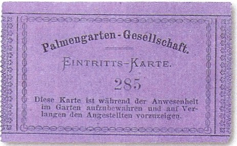 Ticket for admission into Palmengarten in Frankfurt am Main, Germany, 1875